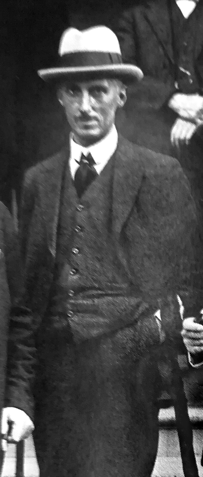 Tommy Lewis, a trade union activist and later a Labour Party MP, at the 1922 Trades Union Congress